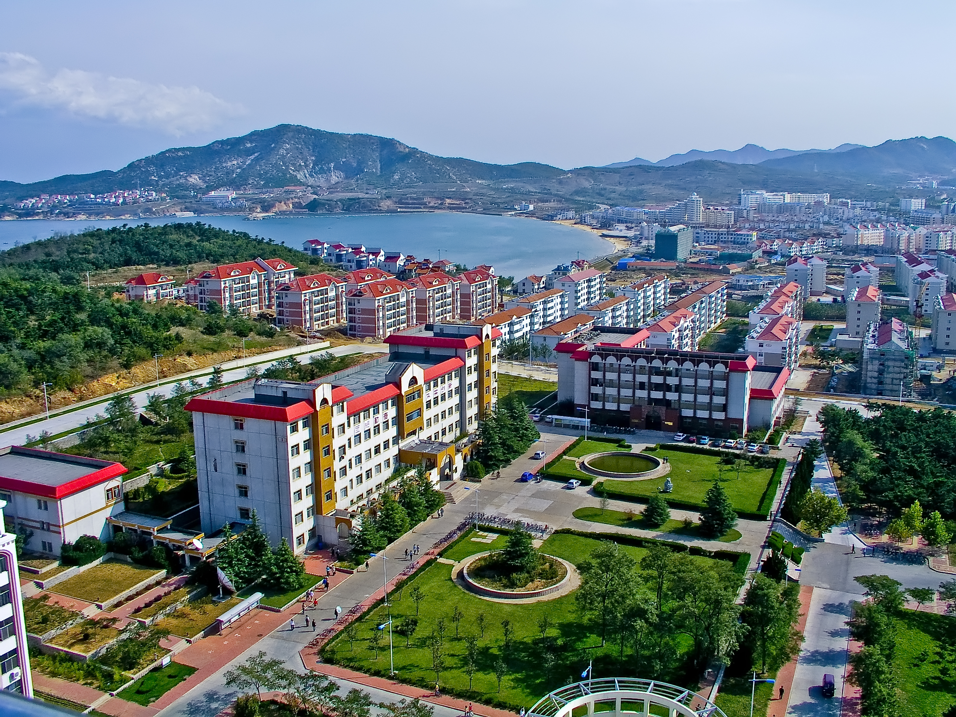 Photograph of the Weihai campus of Shandong University, China. The Weihai Bay of the Yellow Sea can be seen in the background.